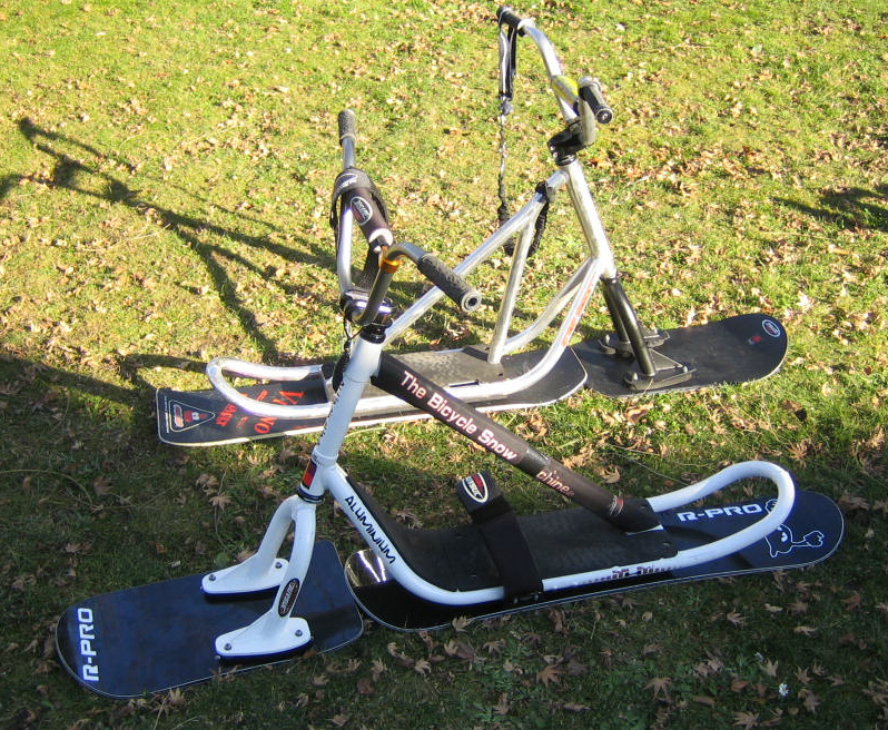 Two snowscoots, white mid-2000s, alloy end 90s